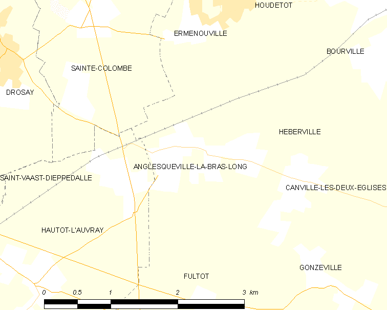 Map of French municipality Anglesqueville-la-Bras-Long